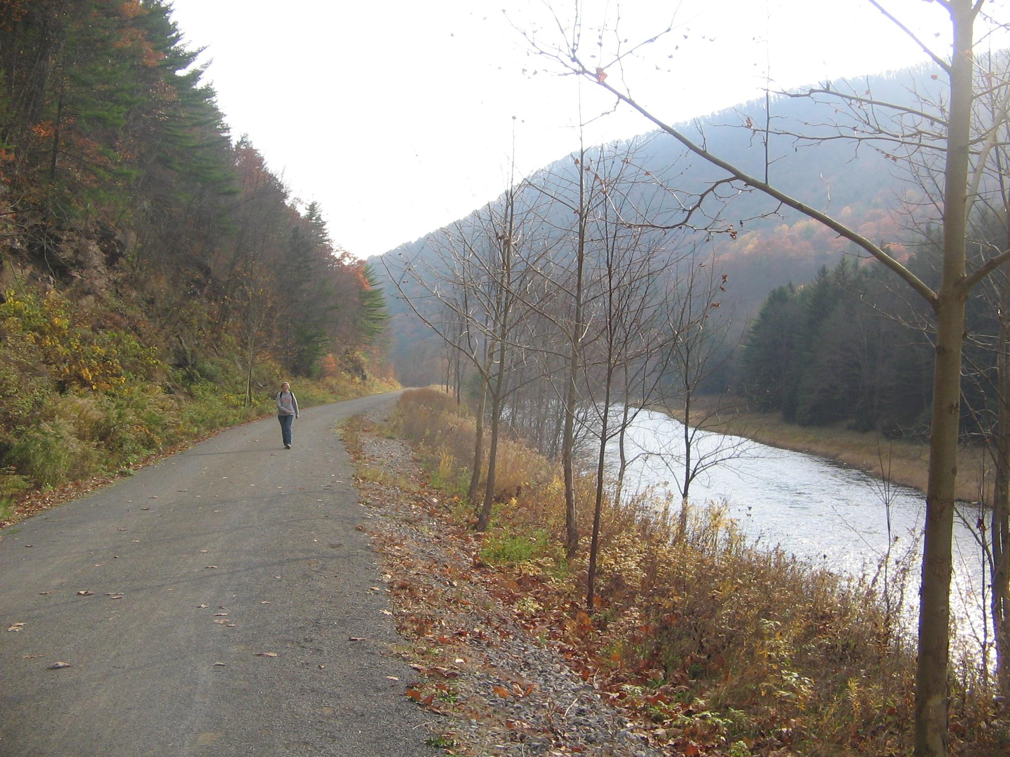 Looking south on Rail Trail along Pine Creek a few miles north of Blackwell in Tioga County, Pennsylvania, USA